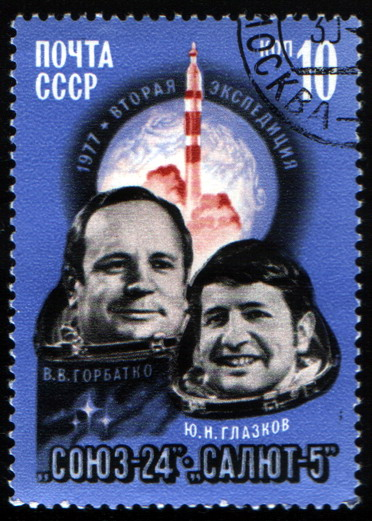 USSR stamp, "Soyuz-24", 1977, 10k.